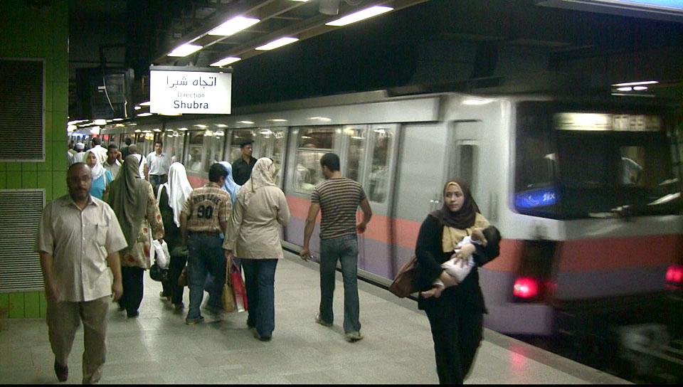 Sadat station plathome, Cairo, Egypt